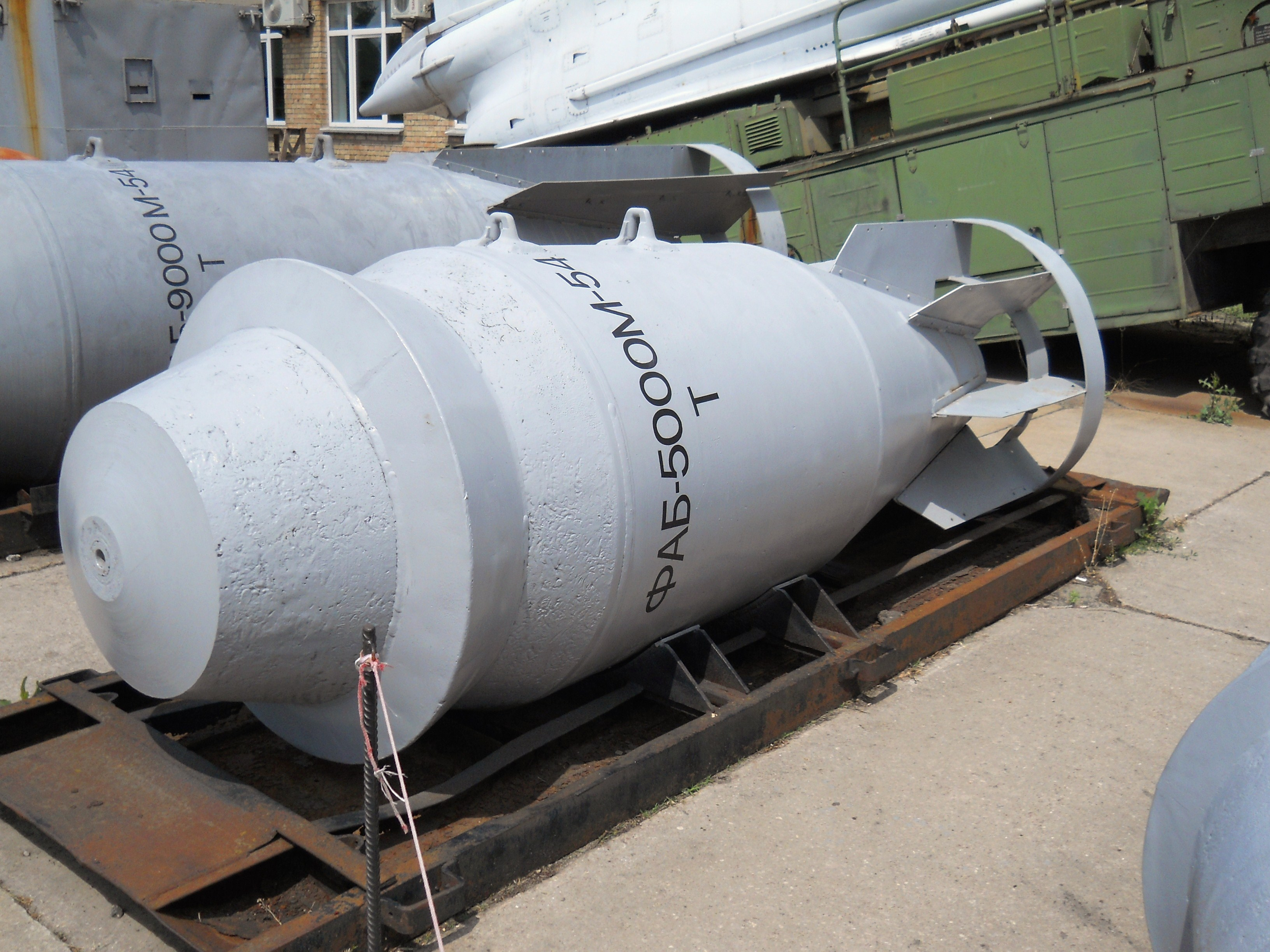 A FAB-5000M-54 soviet 5000kg high-explosive bomb in the Ukrainian State Aviation Museum.